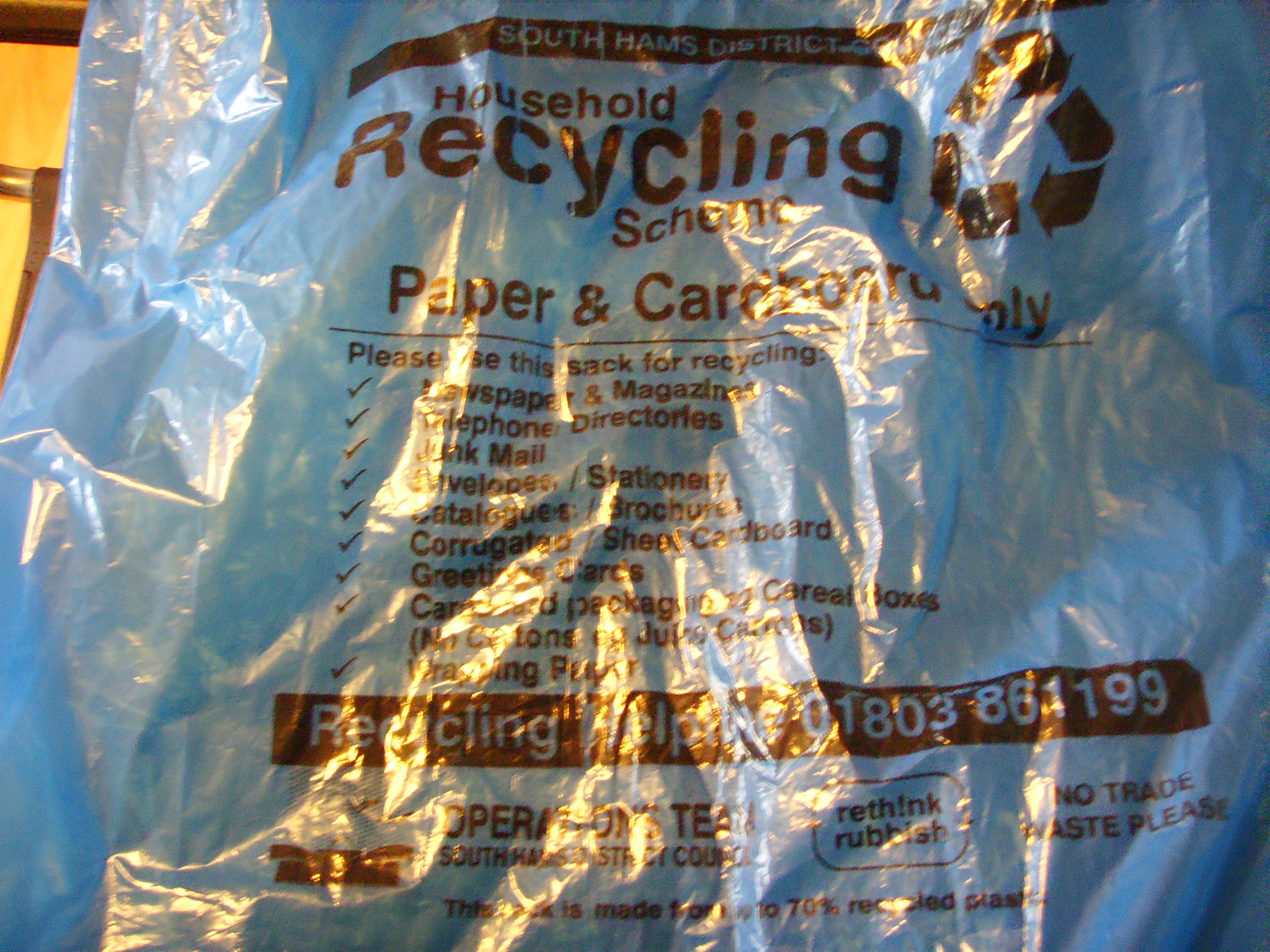 A blue rubbish bag, cardboard and paper, for the recycling of